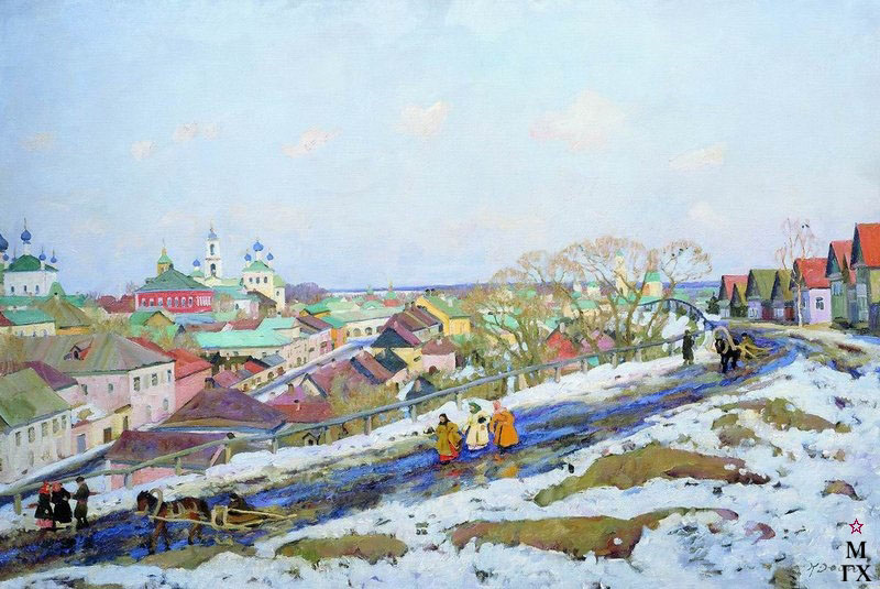 In the Outland. Town of Torzhok, Province of Tver. 1914